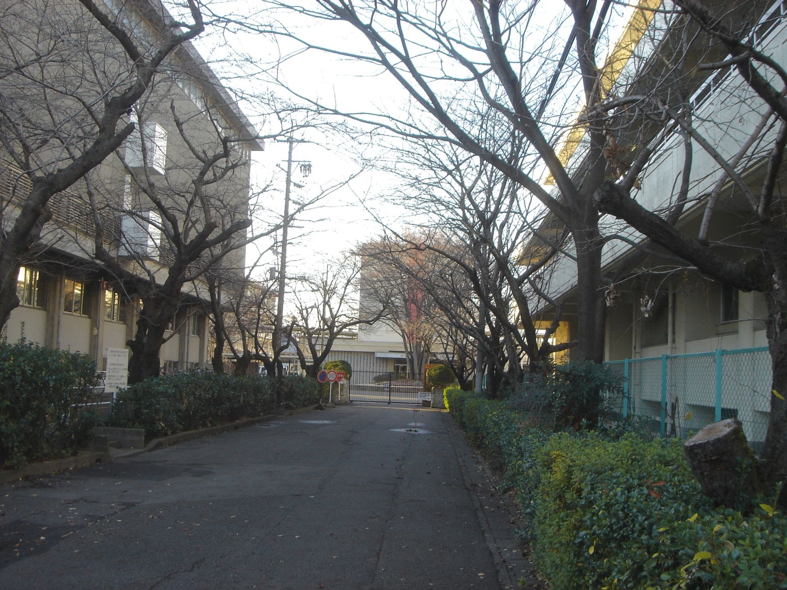 Gifu_Prefectural_Gifu_Technical_High_School（岐阜県立岐阜工業高校）,Kasamatsu,Gifu,Japan(岐阜県笠松町)で撮影。